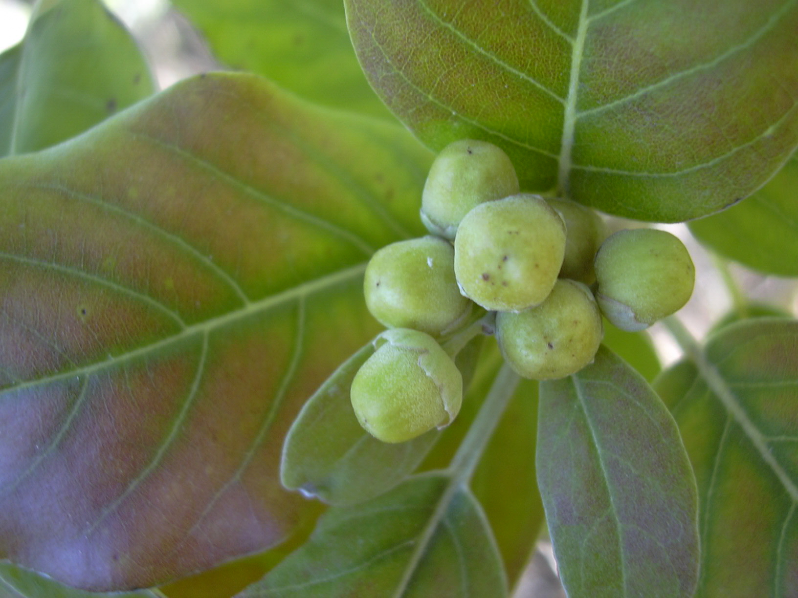 Vitex trifolia (fruit). Location: Florida, S Casey Key